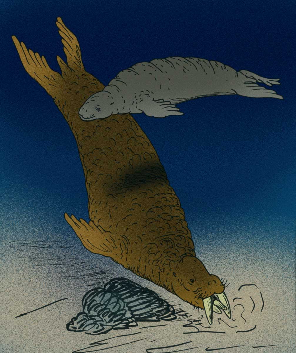 Reconstruction of the Californian shellfish-eating walrus Gomphotaria pugnax, of the mid Miocene (C) Stanton F. Fink